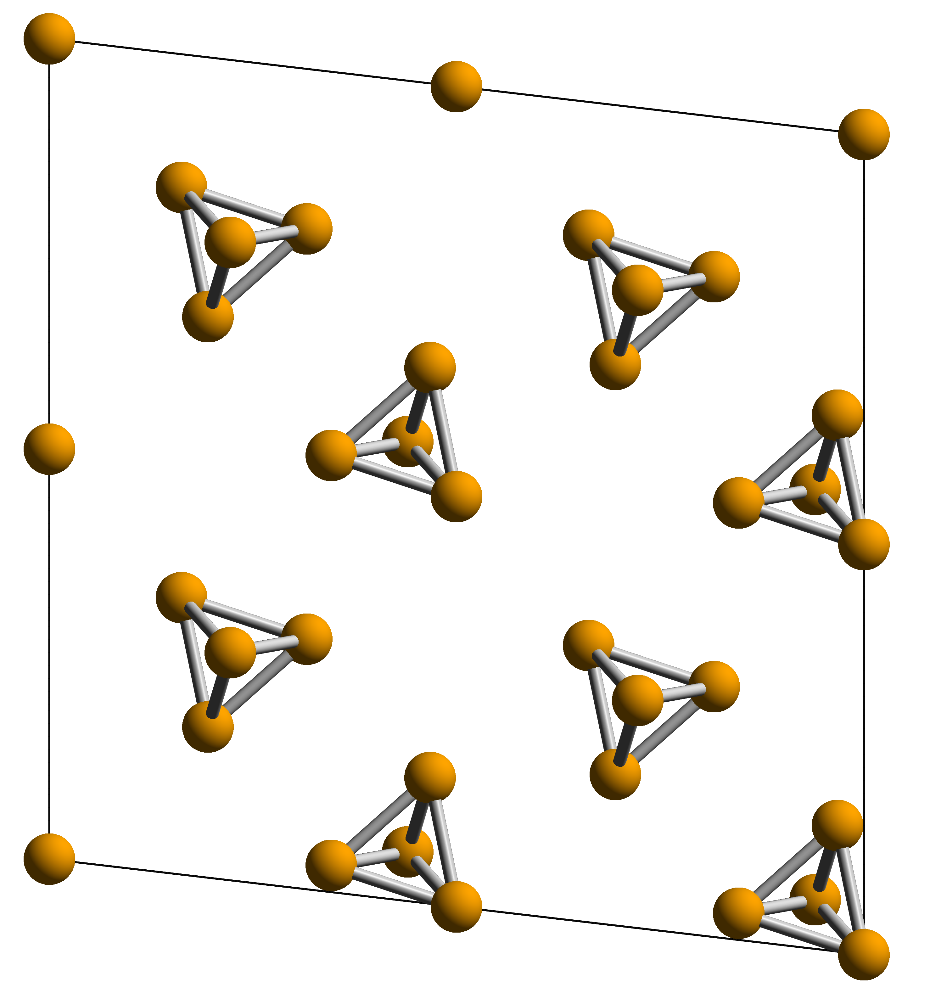 A town down view of an ideal molecular crystal of white (gamma) phorphorus with spacegroup C2/m